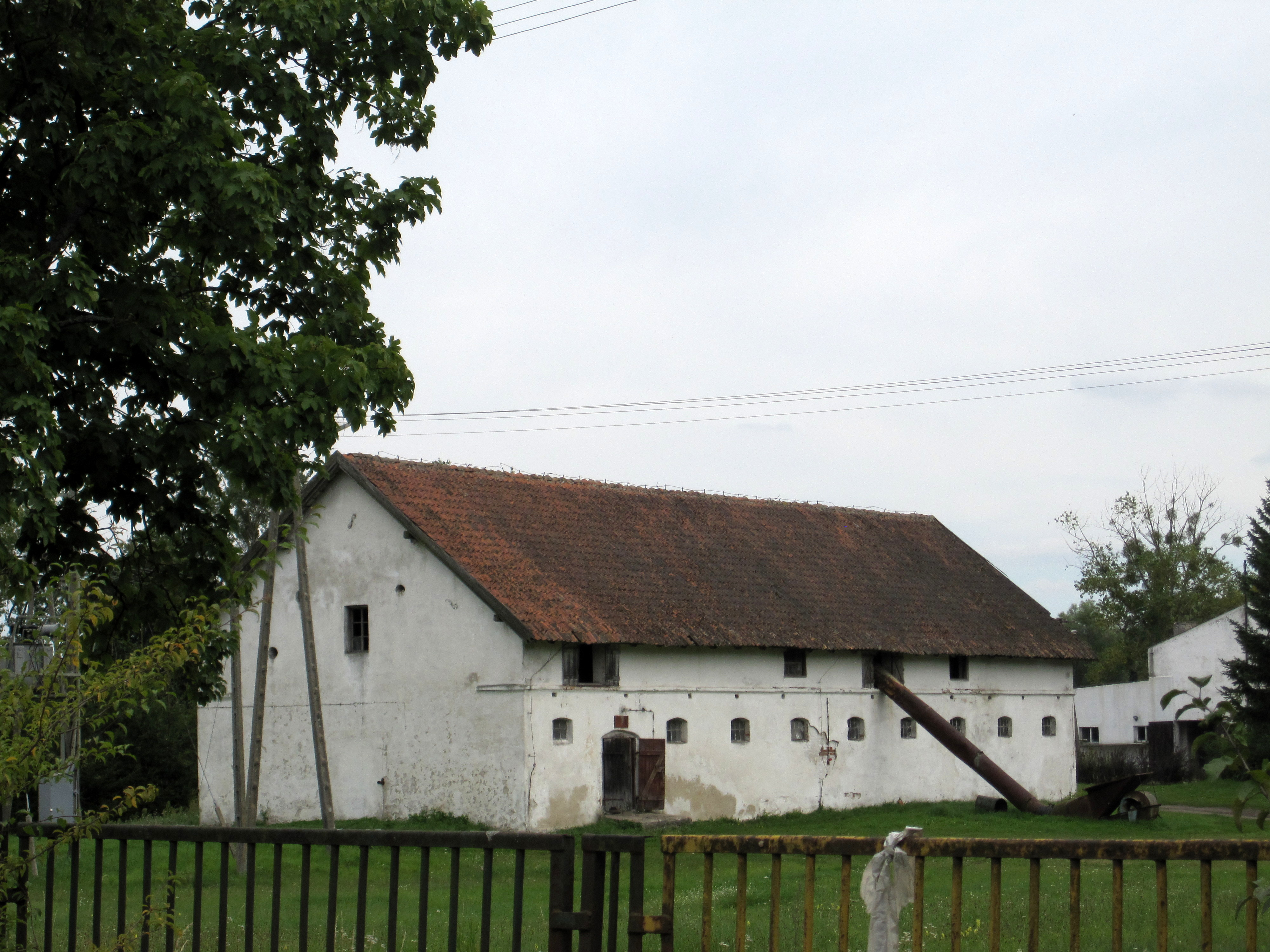 Building in Imionek